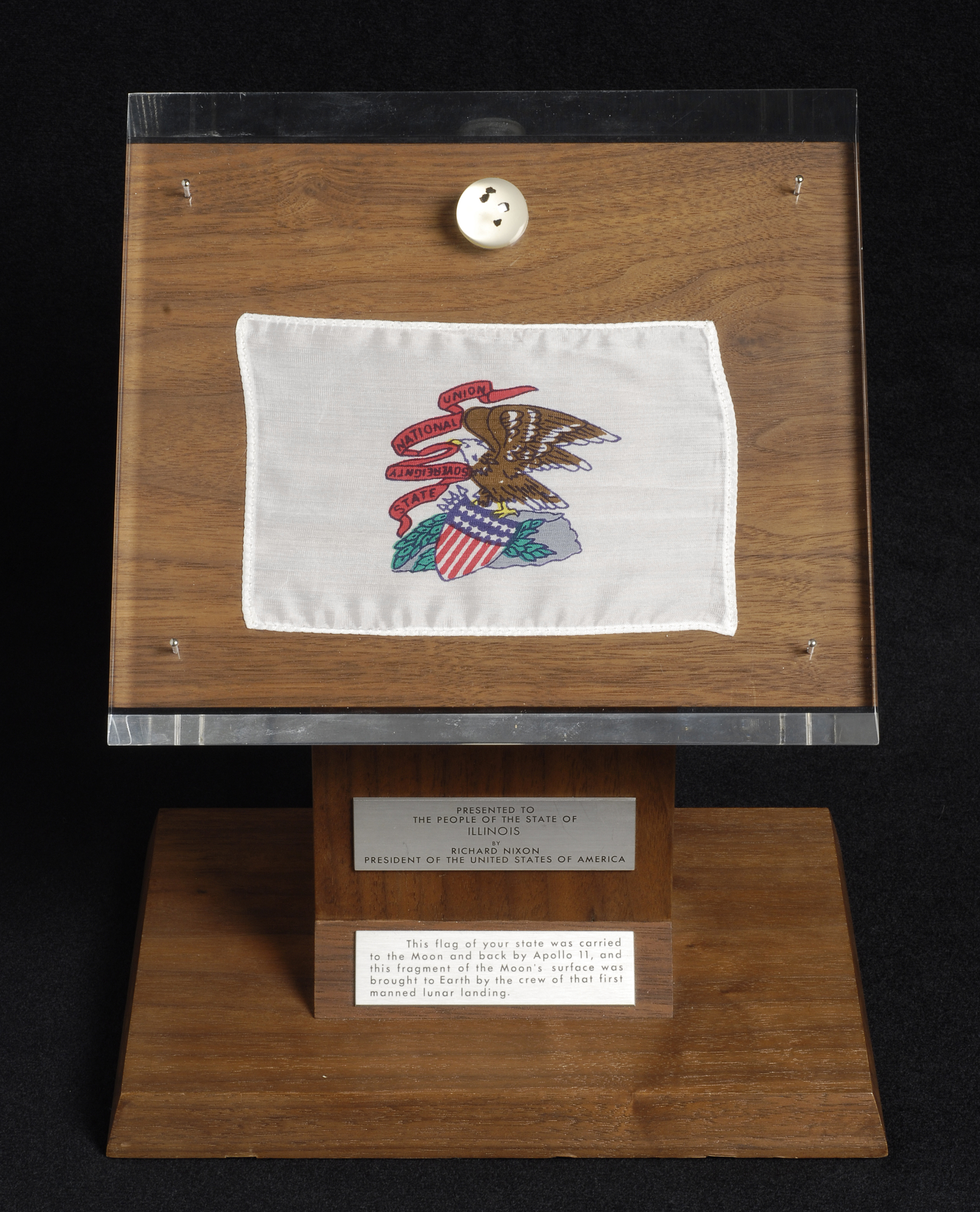 Rock fragments (encased in acrylic) from the Apollo 11 mission to the moon. Donated to the State of Illinois along with the state flag, which accompanied the mission. Image courtesy of the Illinois State Museum and NASA.